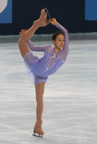 Mao asada performs a spiral during her short program at the 2008 Trophée Eric Bompard.